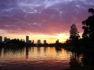 Tunnel View